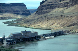 Swan Falls Dam on the Snake River in Ada County, Idaho.